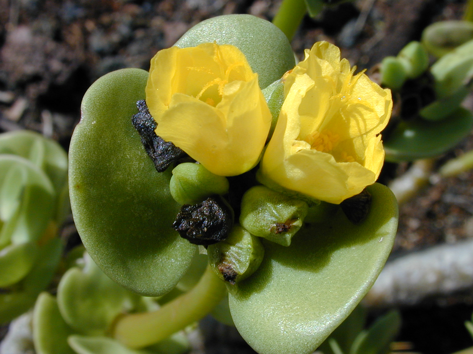 Portulaca molokiniensis — flowers. Location: Kanaha Pond State Wildlife Sanctuary — on Maui, Hawaiʻi.